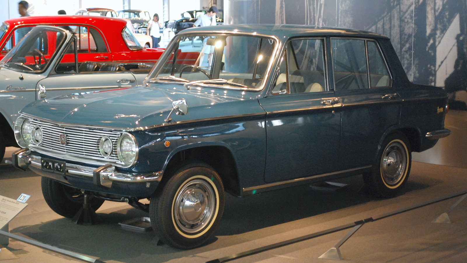 Mazda Familia 800 DeLuxe 4-door sedan (SSA, 1966)